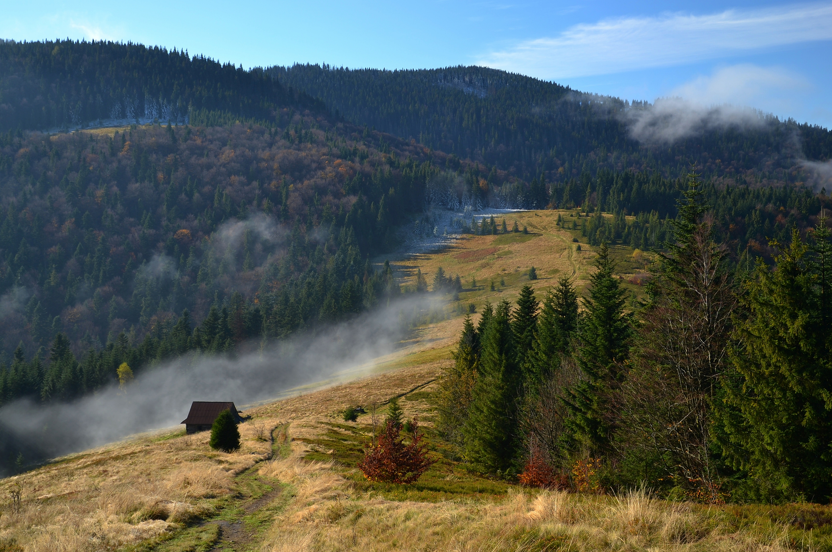 Gorce Mountains, Podskały clearing